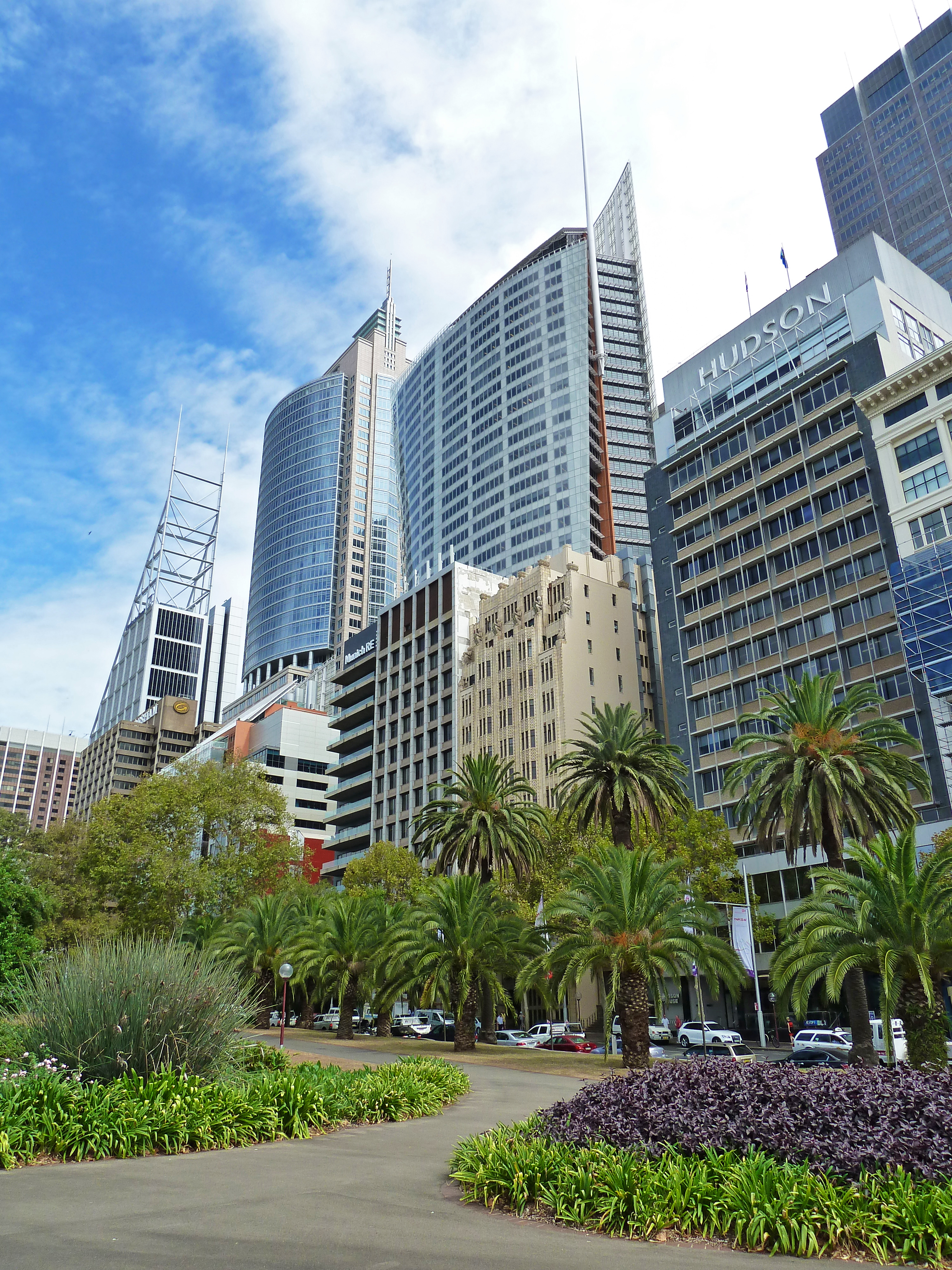 Skyscrapers, from the Domain, Sydney, New South Wales, Australia.